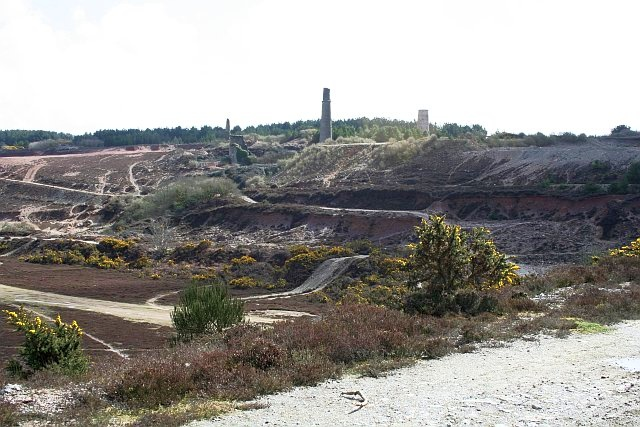 Remains of Wheal Maid, part of Consolidated Mines, Cornwall, England